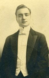 Carlos Cordovez Borja